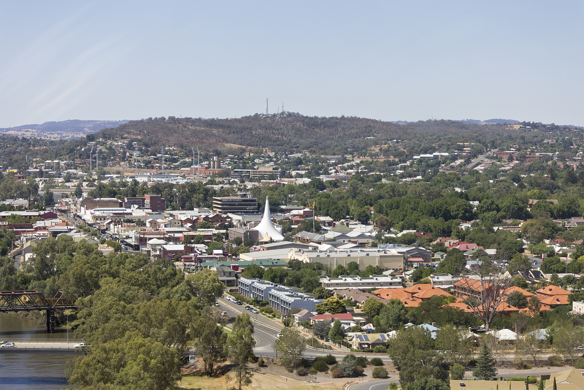 Aerial view of Central Wagga Wagga.